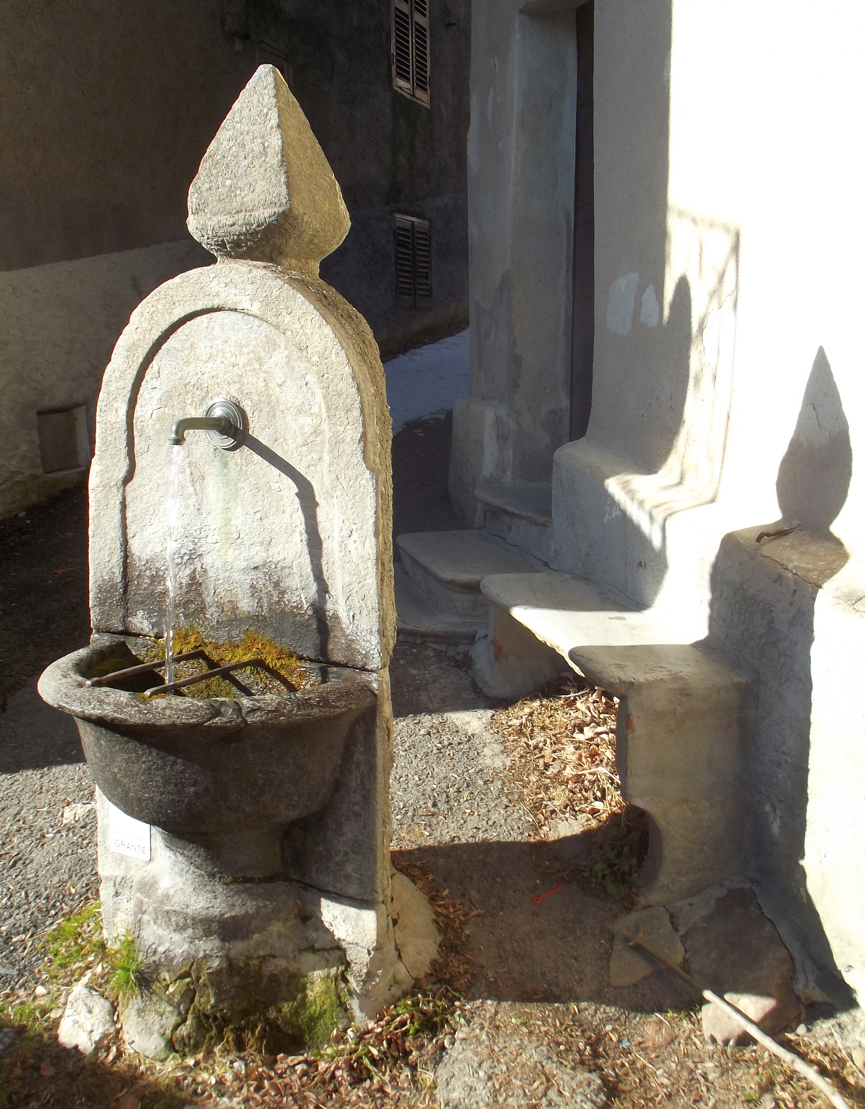 Col San Giovanni (Viù, TO, Italy): fountain on the church square